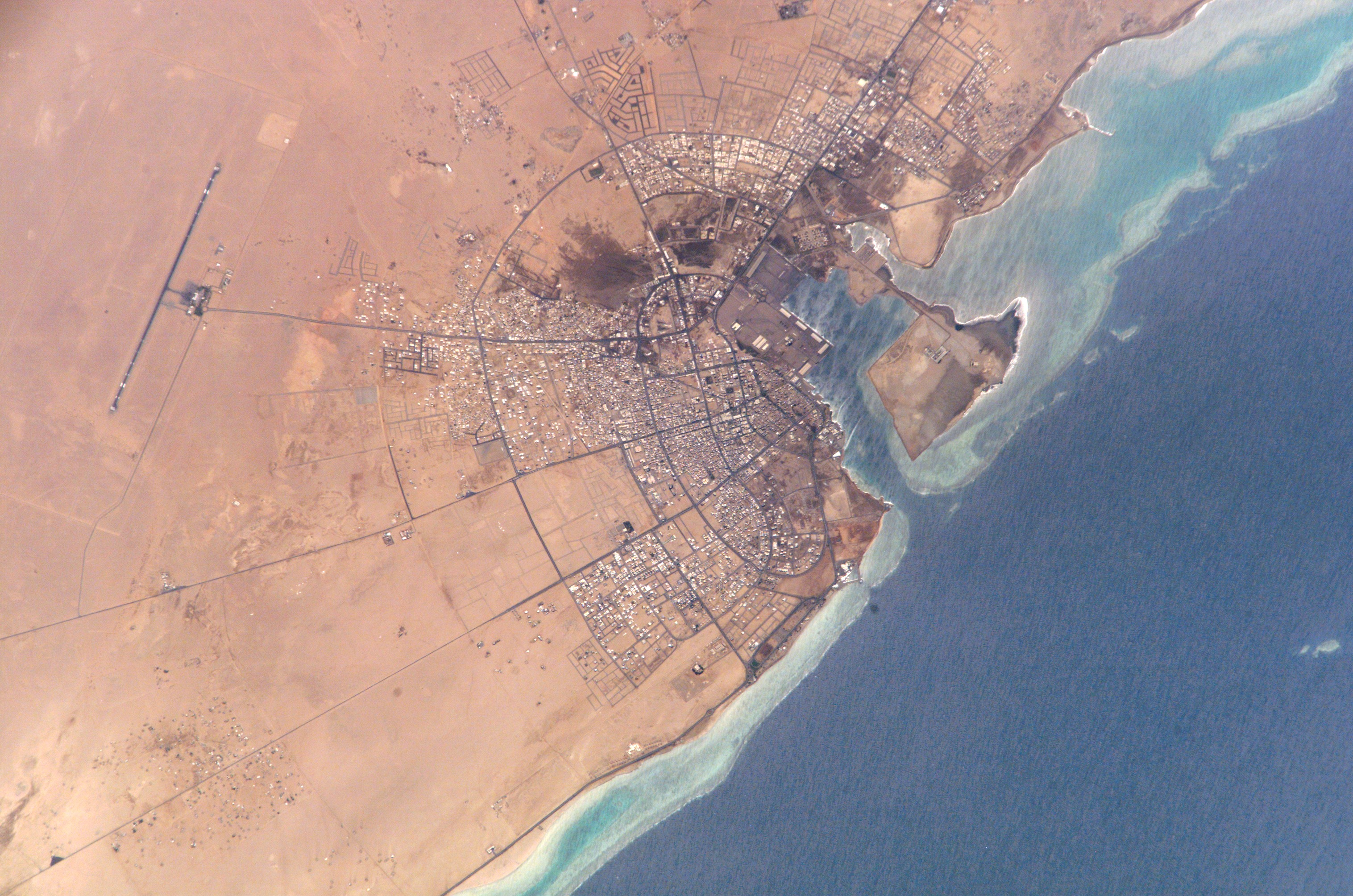 NASA photo of Yanbu' al Bahr